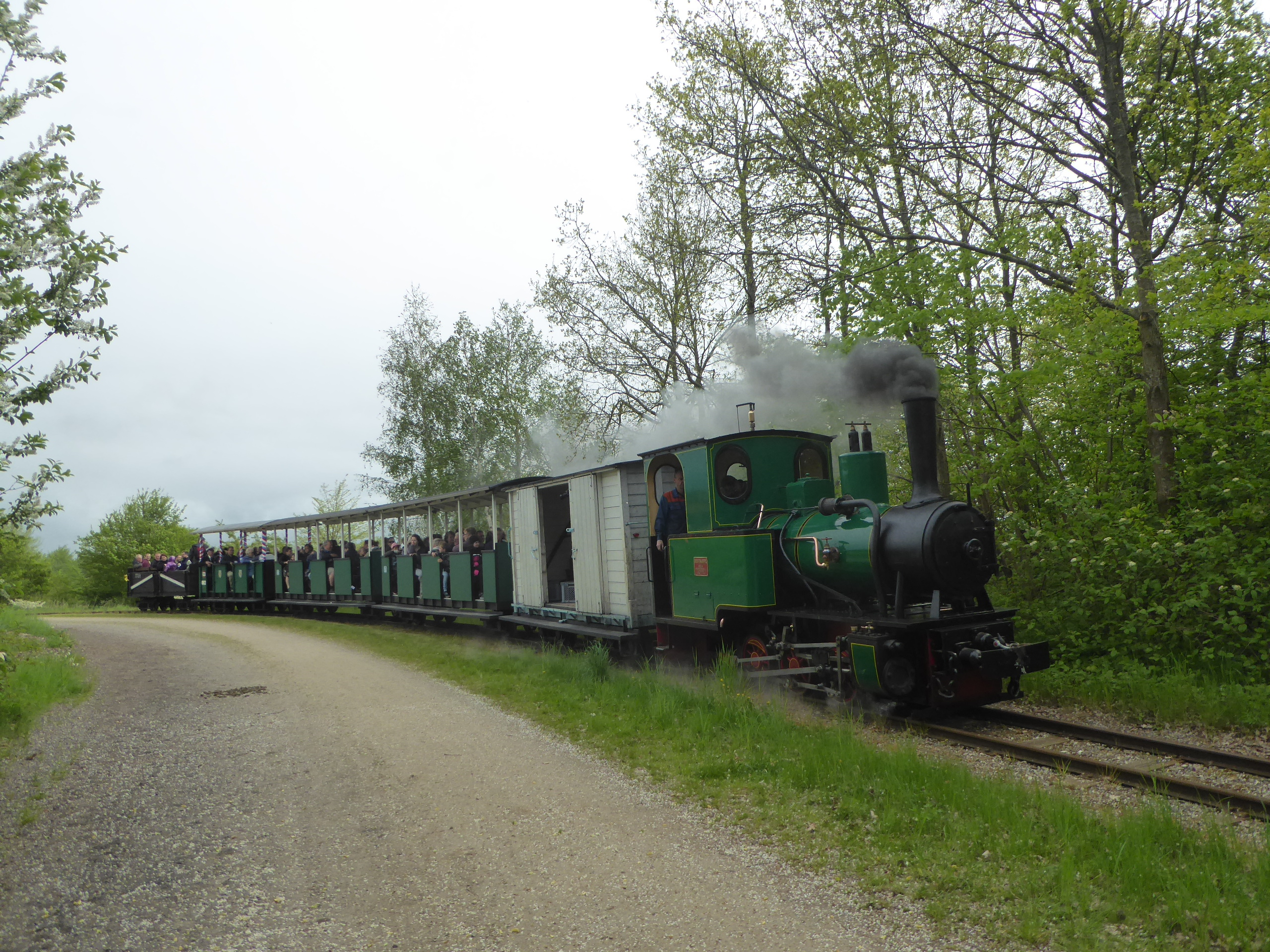 40 years anniversary of the narrow gauge heritage railway Hedelands Veteranbane west of Copenhagen. The steam locomotive nr. 3 with a train for invited guests going for Rubjerg.